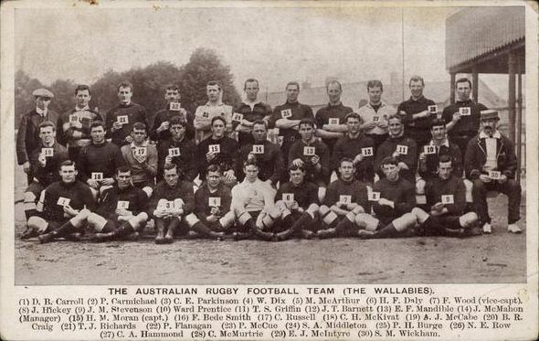 1908 Australian rugby union team with names